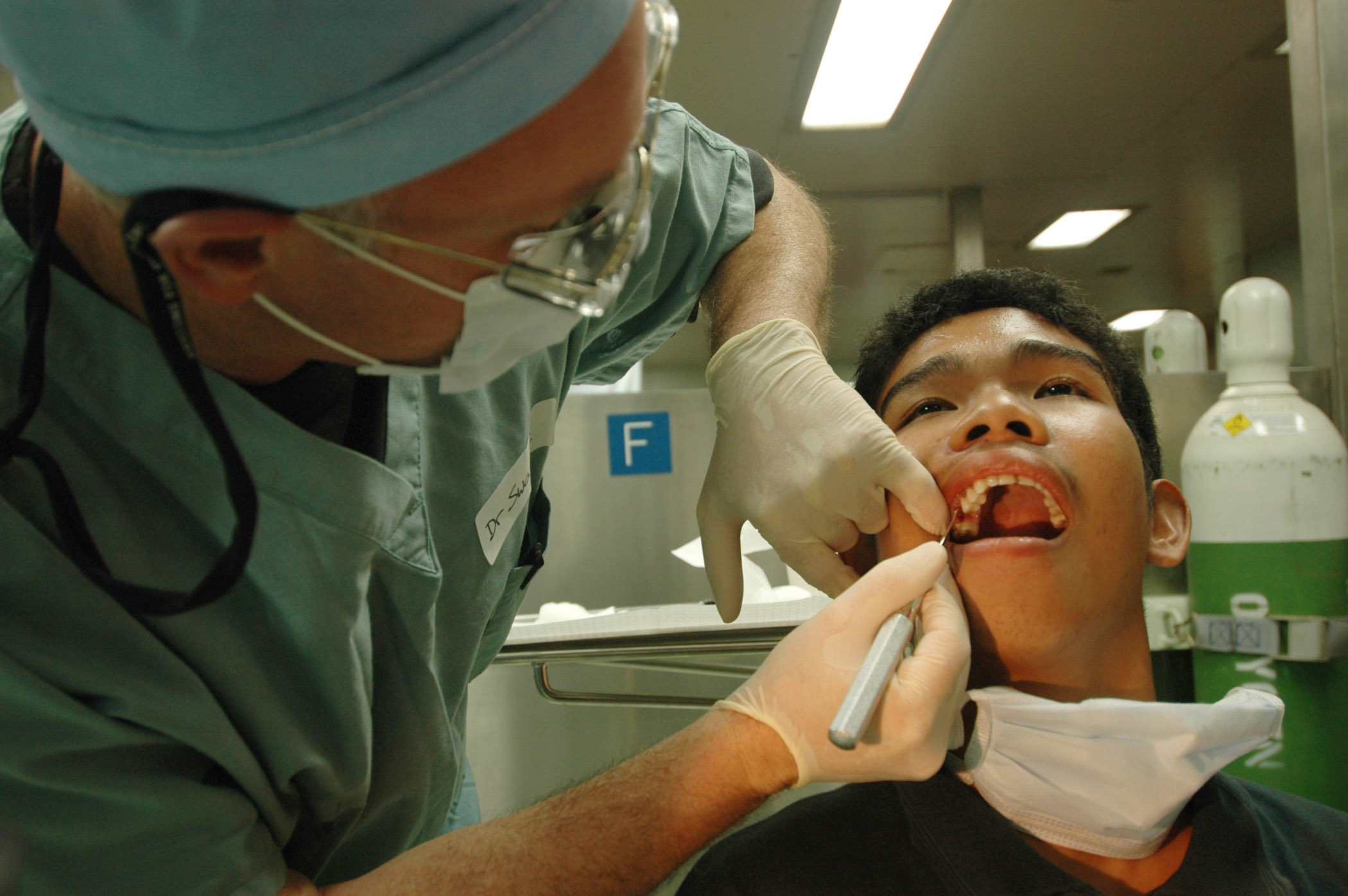 Jolo, Philippines (June 07, 2005) - Air Force Col. Jeffrey Swartz, a dentist, pulls teeth from patients aboard the U.S. Military Sealift Command (MSC) hospital ship USNS Mercy (T-AH 19). Distributing medication, pulling teeth and performing general surgeries aboard Mercy were just a few the humanitarian aid projects performed. During the five-month humanitarian aid mission to host nations in the Pacific Islands and South and Southeast Asia, Mercy will be working in a joint environment. Mercy has already visited Zamboanga, Philippines where its crew had treated several thousand patients in one week. The Helicopter Sea Combat Squadron Two Five (HSC-25) is attached to Mercy and will provide medical evacuation for patients as well as a mode of transportation for medical personnel to reach the shore. Mercy is uniquely capable of supporting medical and humanitarian assistance needs and is configured with special medical equipment and a robust multi-specialized medical team who can provide a range of services ashore as well as aboard the ship. The medical staff is augmented with an assistance crew, many of whom are part of non-governmental organizations, foreign militaries and other branches of U.S. Military that have significant medical capabilities. U.S. Navy photo by Journalist Seaman Apprentice Mike Leporati (RELEASED)